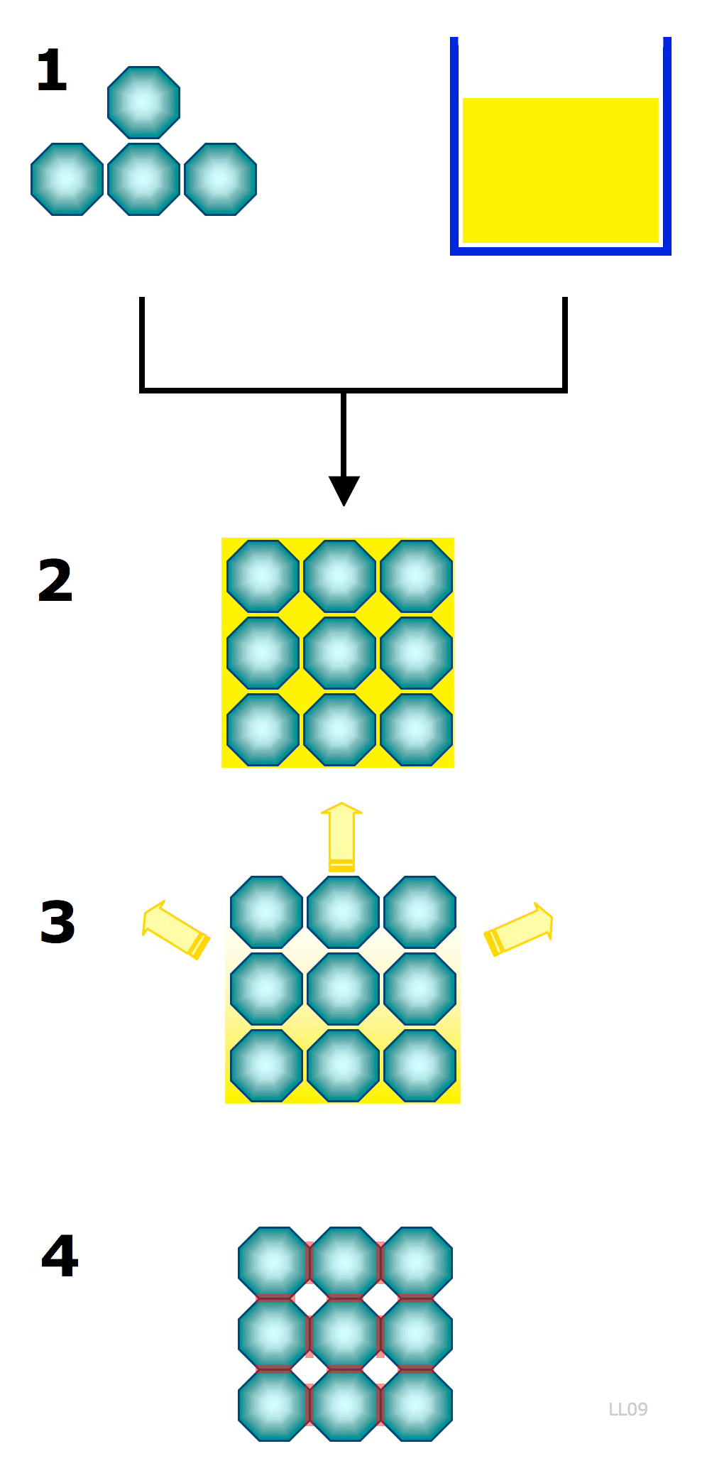 Powder Injection Moulding. 1 Mixing powder and binder. 2 Injection molding. 3 Removing binder. 3 Sintering.